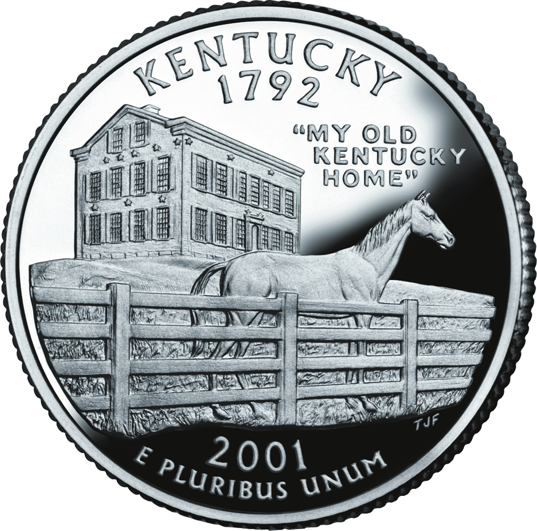 The reverse side of the Kentucky State Quarter. It is a "proof" obtained from the US Mint website and has its background removed, was cropped, and converted to PNG with Macromedia Fireworks.